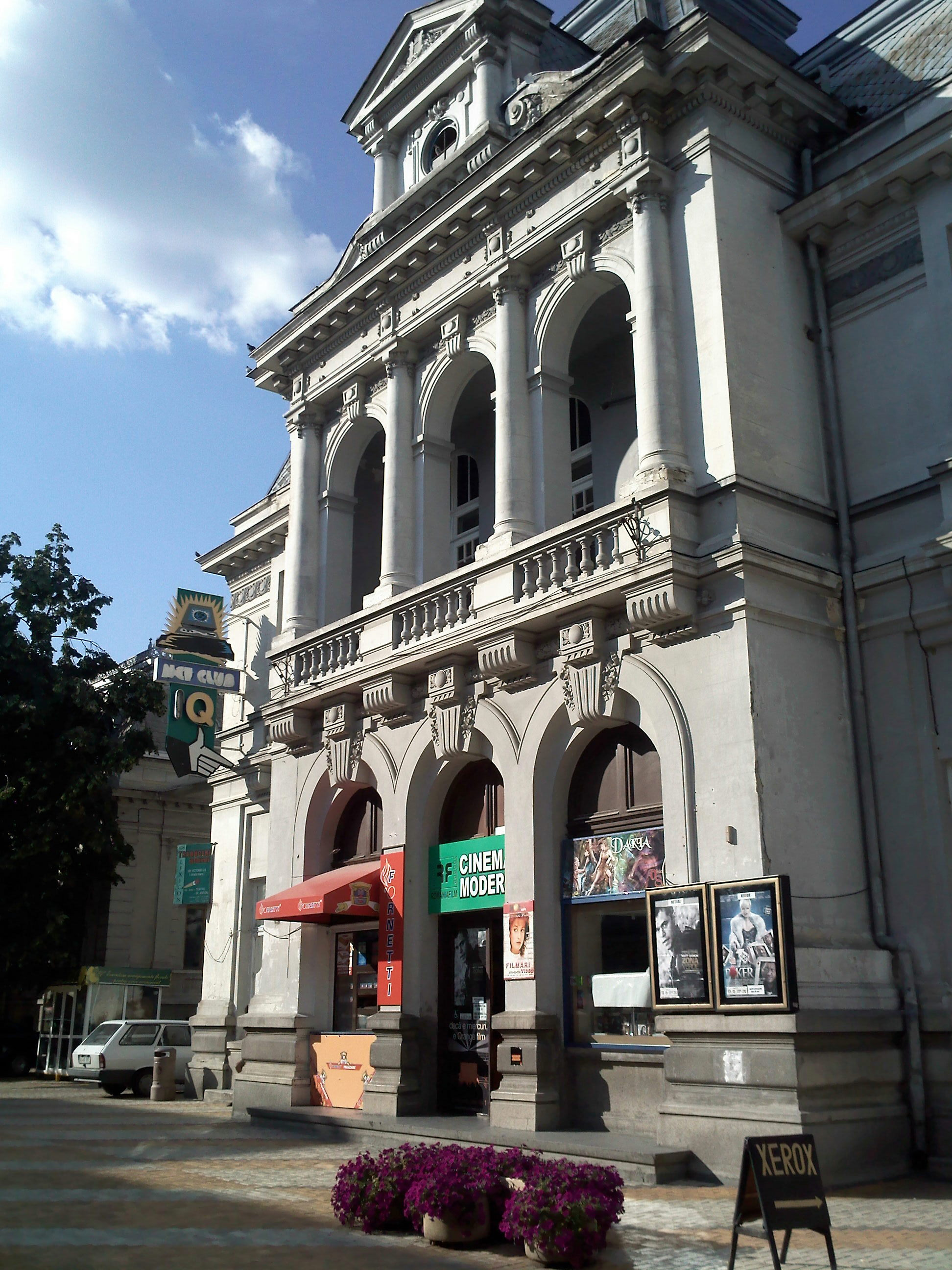 Cinema 'Modern' Piteşti on Victoriei street